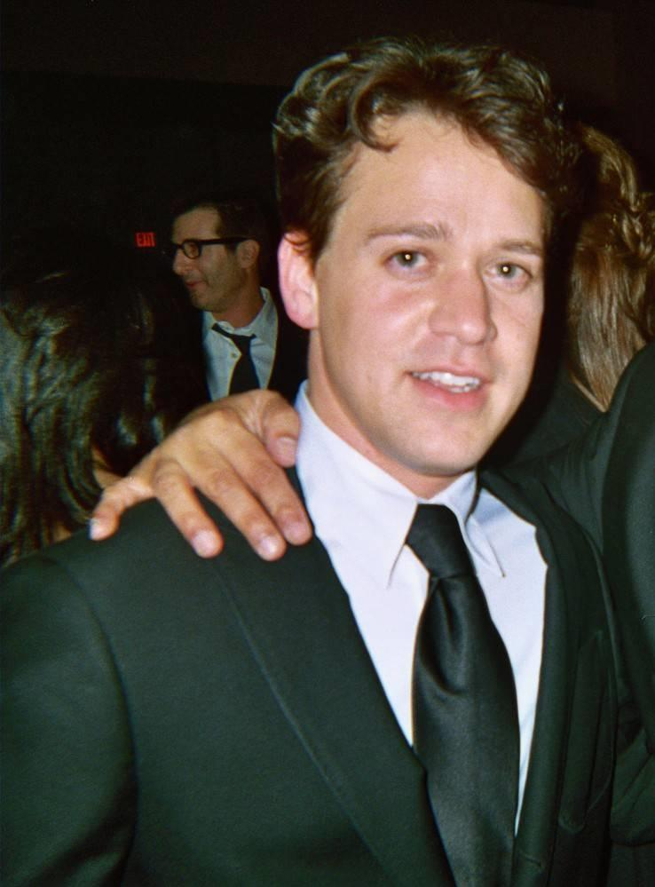 Actor T. R. Knight ("Grey's Anatomy")